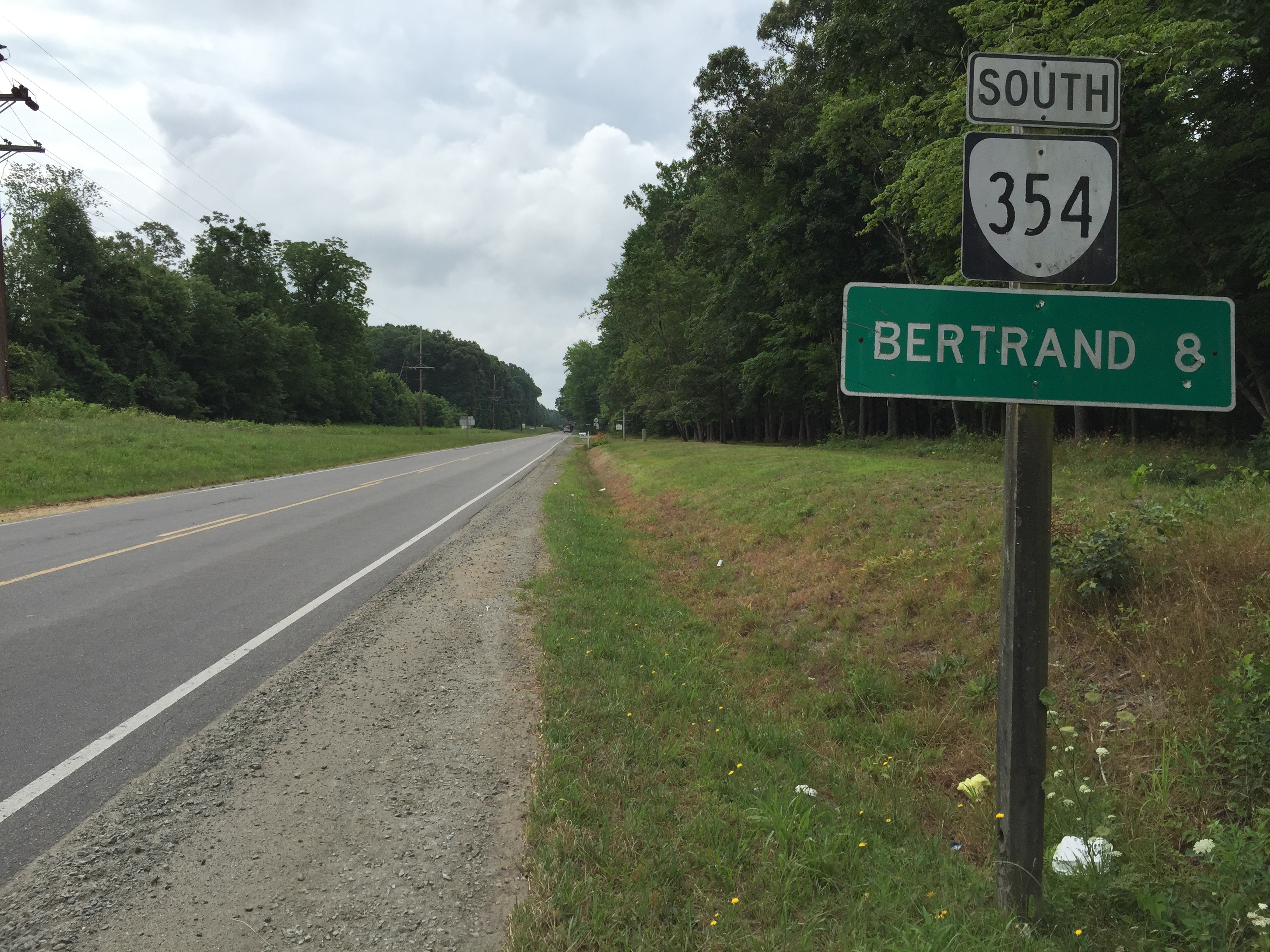 View south along Virginia State Route 354 (River Road) at Virginia State Route 201 (White Chapel Road) in Monaskon, Lancaster County, Virginia